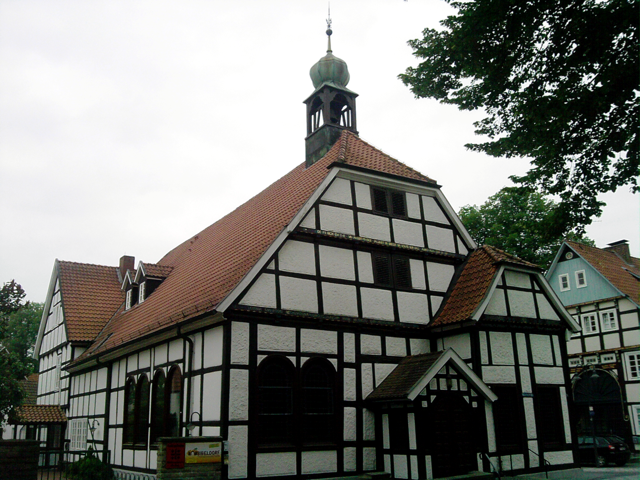 Ev. Church Rietberg